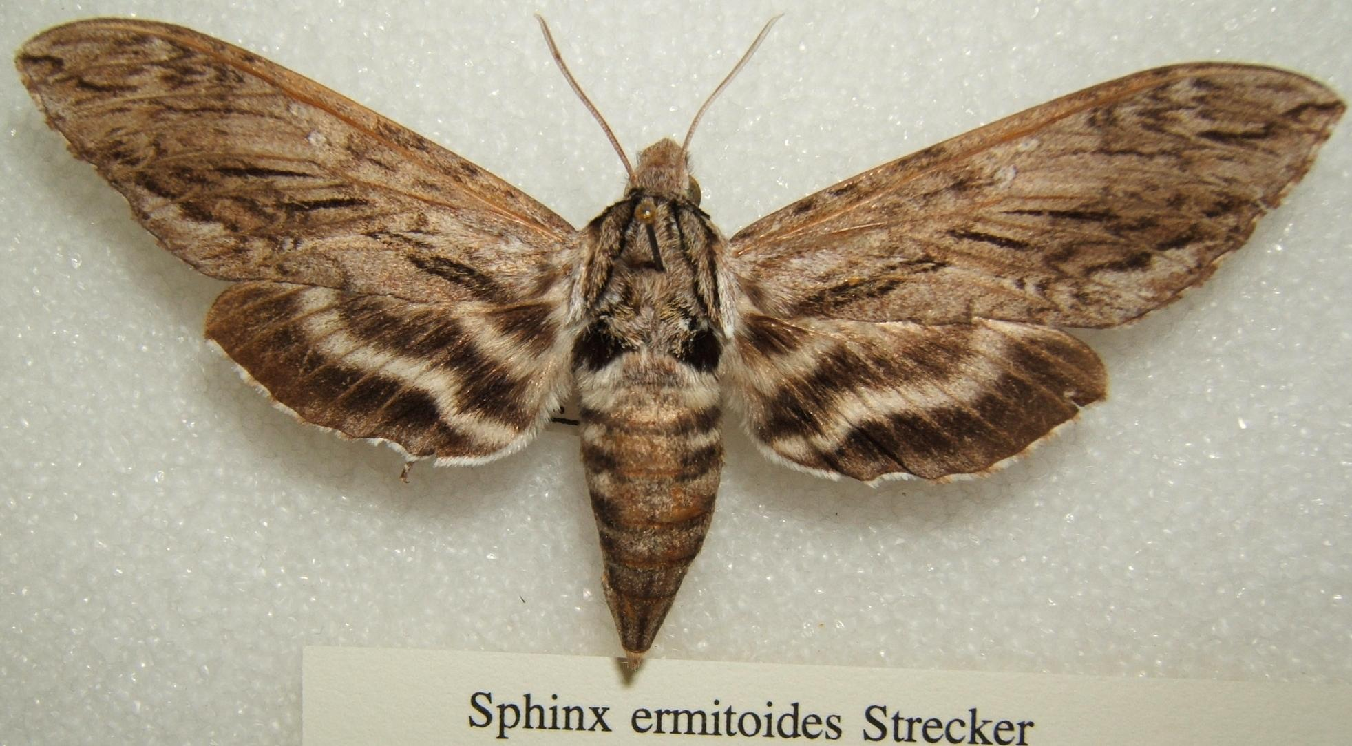 Sphinx ermitoides adult taken by Shawn Hanrahan at the Texas A&M University Insect Collection in College Station, Texas.